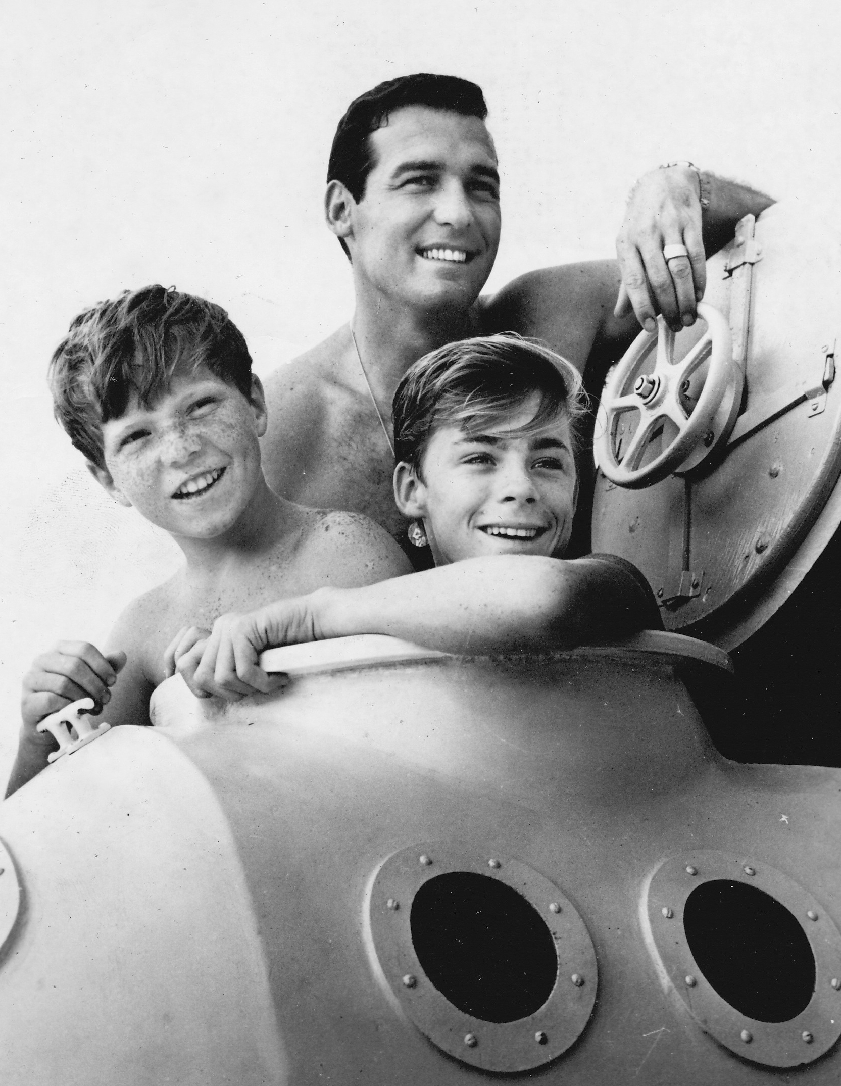 Publicity photo of Brian Kelly, Luke Halpin and Tommy Norden promoting the television series Flipper.